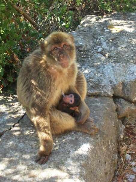 Female barbary macaque with young suckling at Mediterranean Steps, Gibraltar.